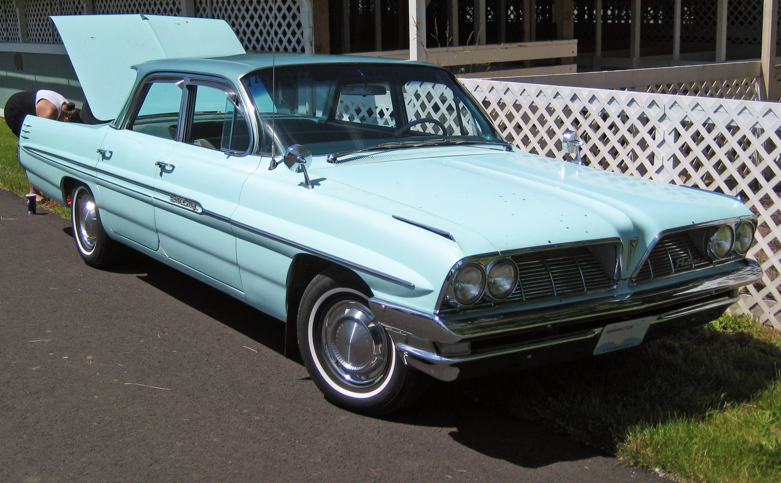 What were the ordinary family cars of yesterday are now the cool transportation. This 1961 Pontiac Star Chief Sedan was photographed at the 2010 Billetproof show in Washington state. Note: this is not a Star Chief Vista, as that name was only applied to the 4-door hardtop body-style.